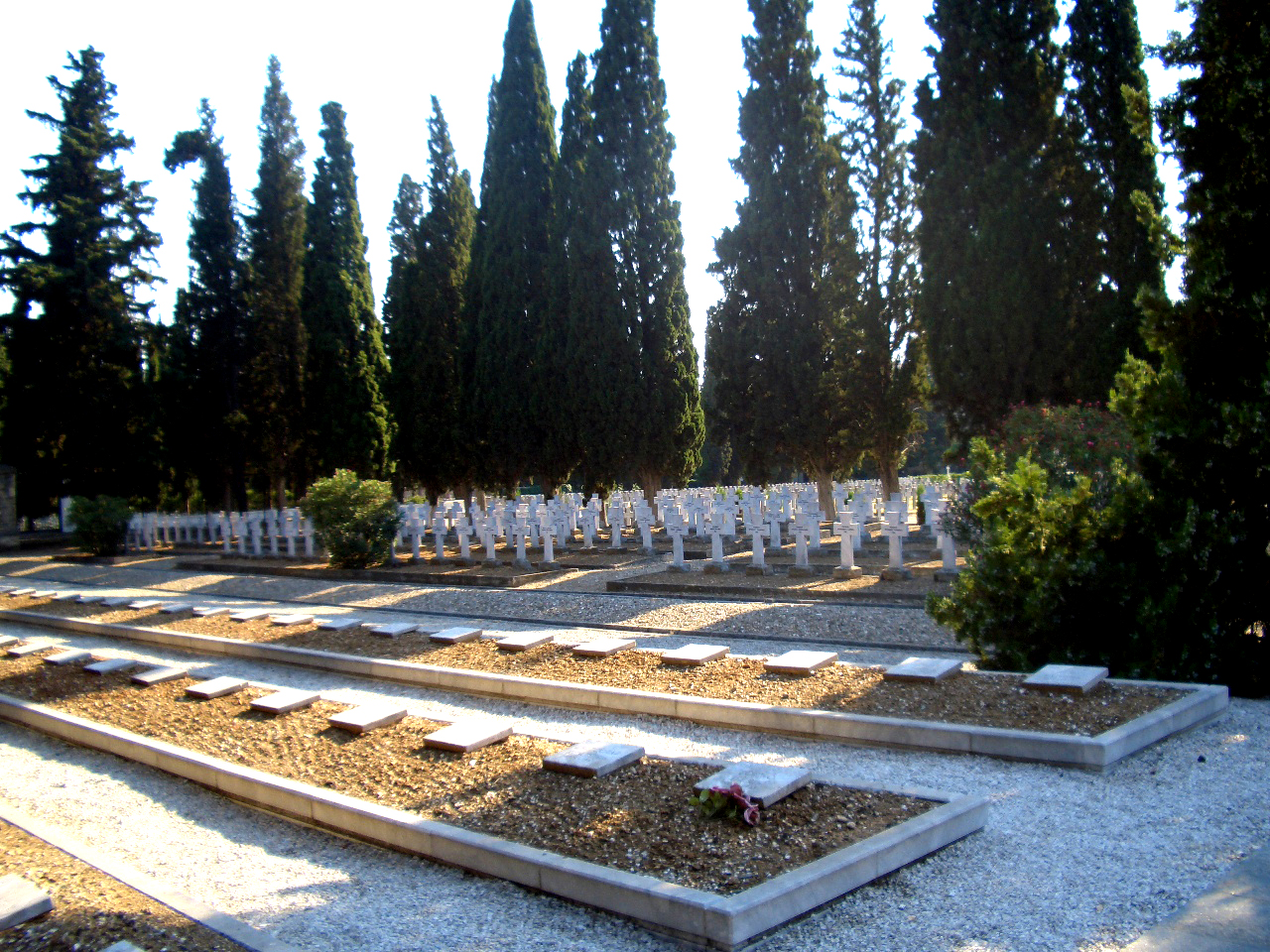 Allied Memorial Park of Zeitenlik in Salonica.